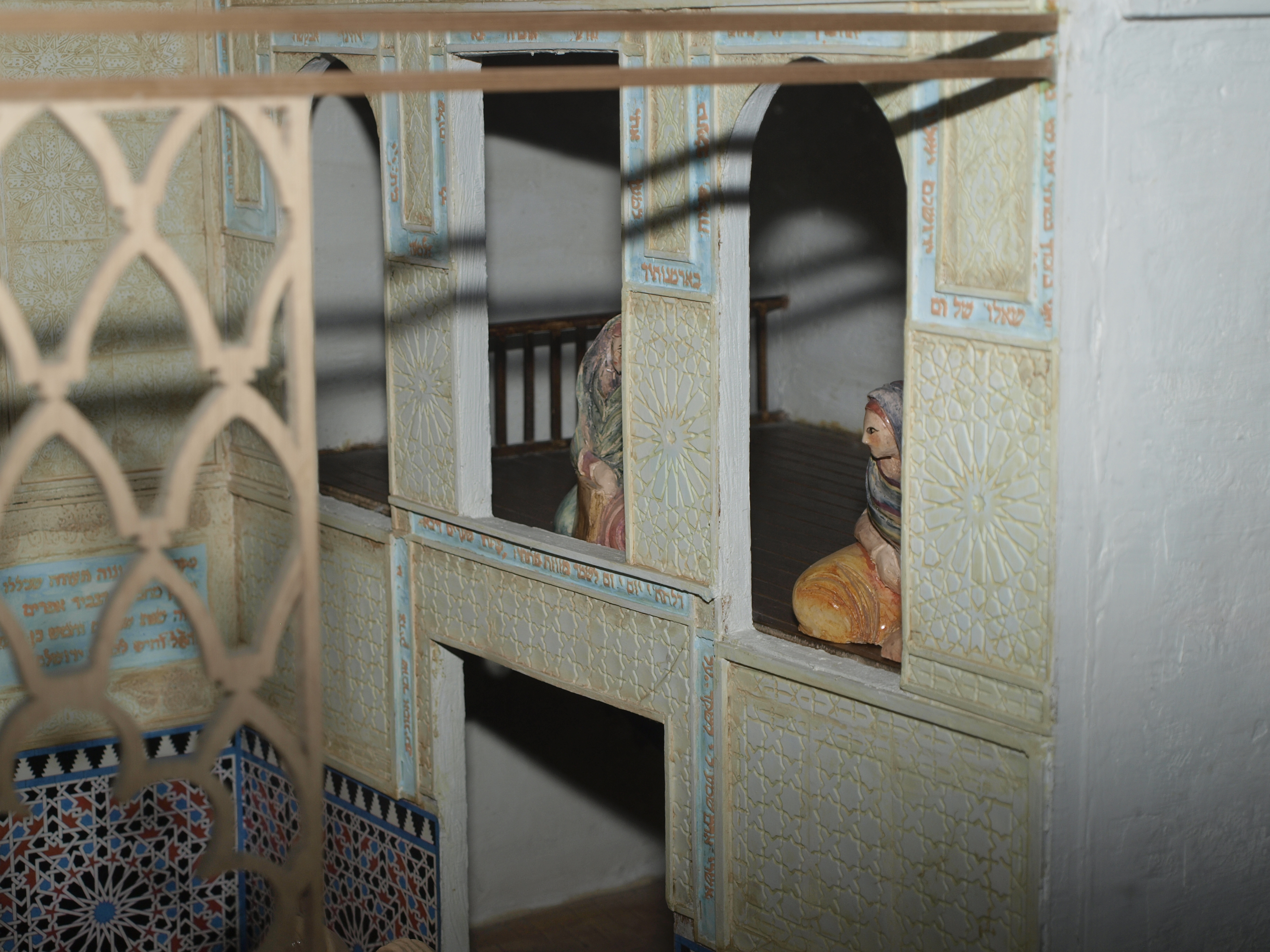 Miniature of women's gallery in Synagogue of Córdoba